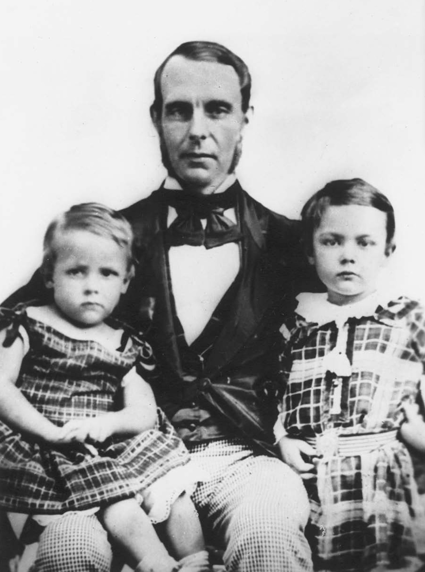 George Morison Robertson (February 26, 1821 — March 12, 1867) and two sons James William Robertson (1852—1919) and George Humphreys Robertson (1854—1919), ca. 1860.